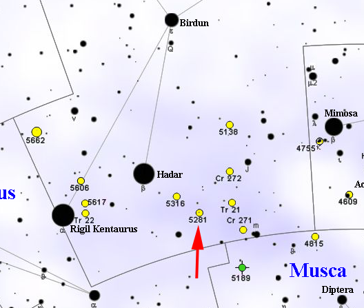 Map of NGC 5281